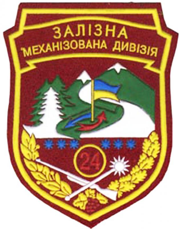 Shoulder sleeve insignia of the Command and Staff of the Ukrainian Army 24th Mechanized Infantry Division